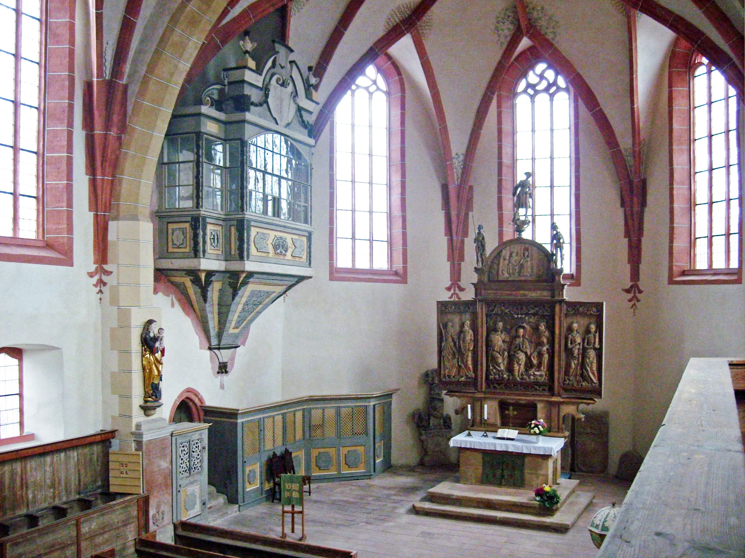 Interior of St. Mary's Church, Rötha (Leipzig district, Saxony)